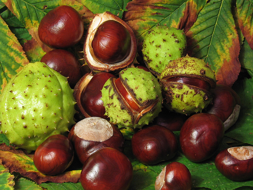 The fruit of the Horse chestnut tree. They are not true nuts, but rather capsules.